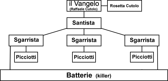 Structure of "Nuova Camorrra Organizzata" (NCO), an italian Camorra criminal organization founded in the late 1970s by Raffaele Cutolo.